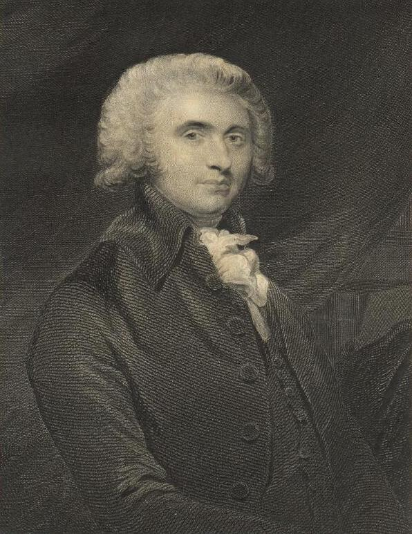 A portrait from the Welsh Portrait Collection at the National Library of Wales. Depicted person: David Erskine, 2nd Baron Erskine – British politician